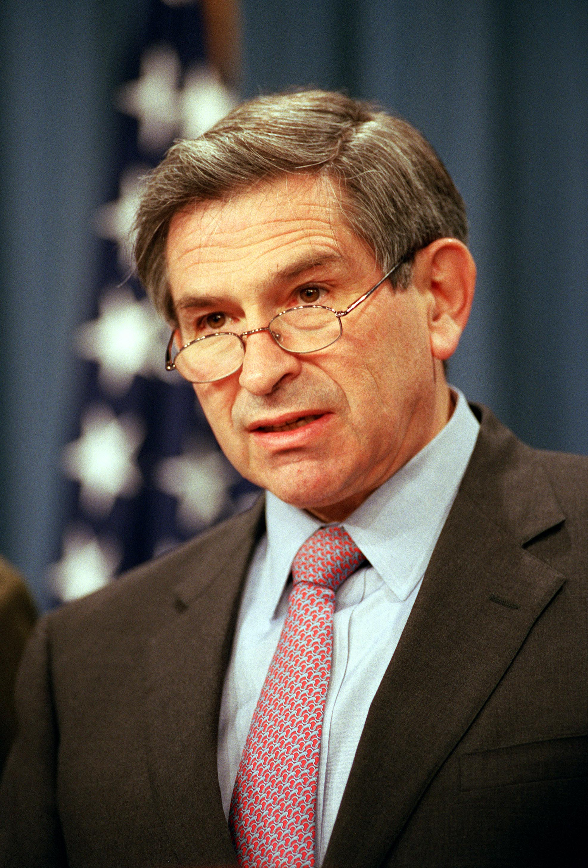 Deputy Secretary of Defense Paul Wolfowitz briefs reporters at the Pentagon about the on-going campaign against the al Qaeda terrorist organization and the military capability of Taliban regime in Afghanistan.